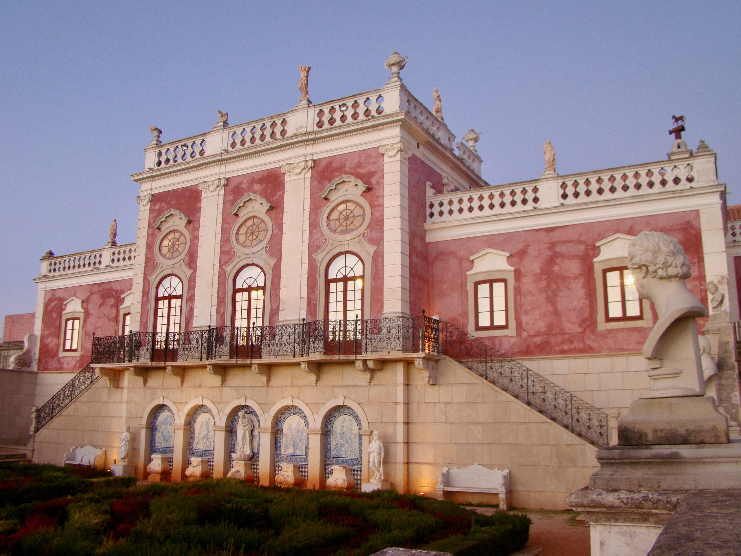 Estoi Palace, in Faro - Algarve, Southern Portugal. Photo taken on 30/11/2018.